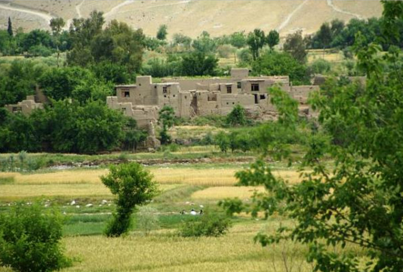 Qalacha Laghman valley